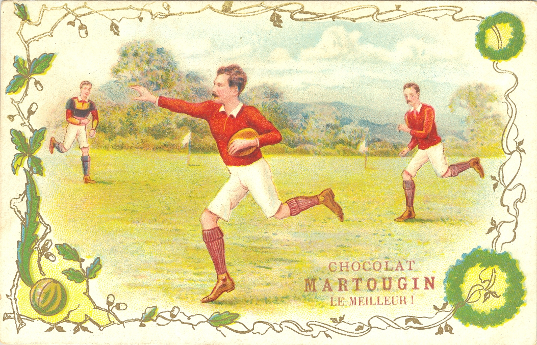 Depiction of Arthur Gould, rugby player for Newport and Wales national team. 27 caps for Wales between 1884 and 1897 as centre.